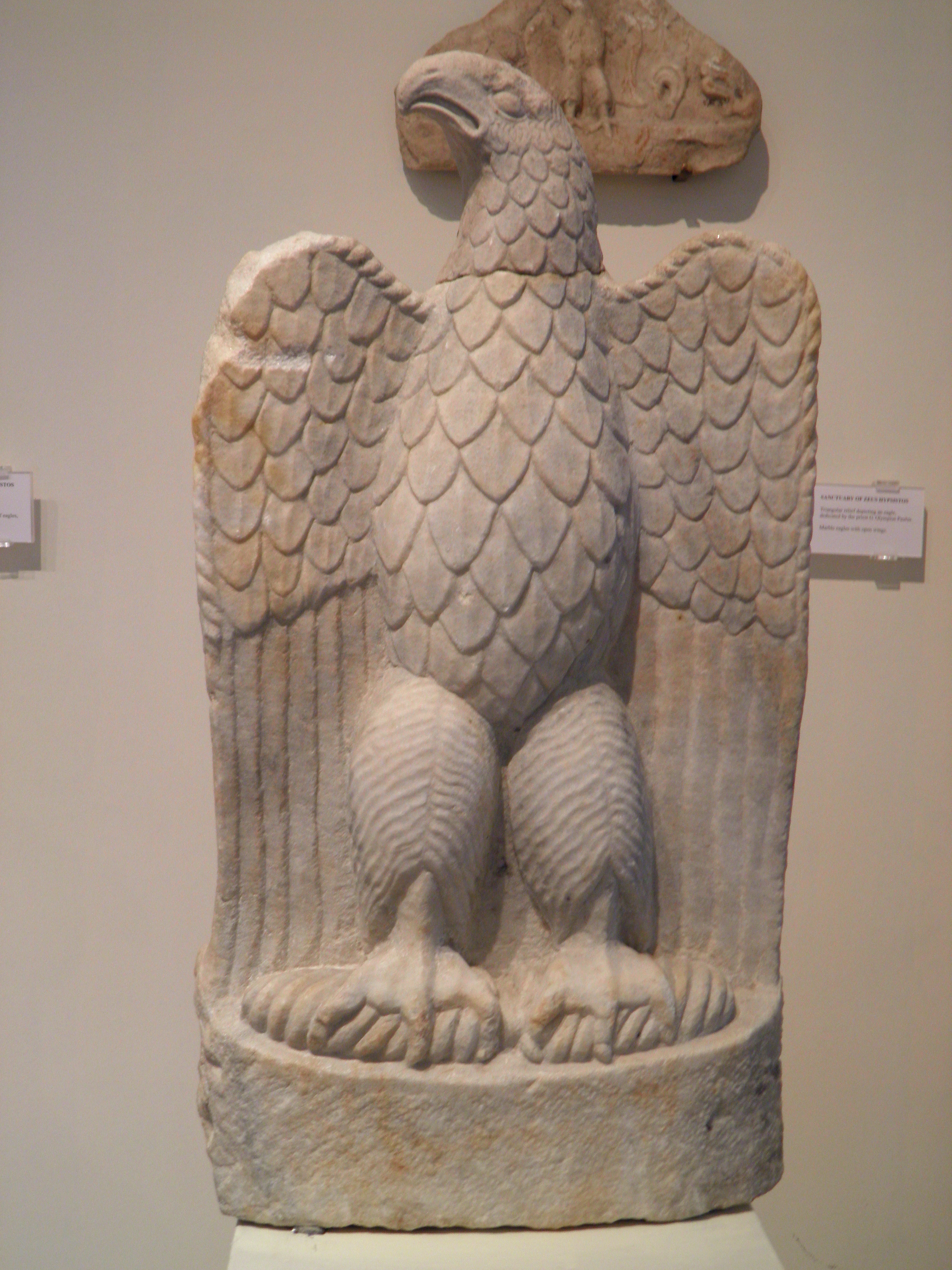 Marble eagle with open wings, from the sanctuary of Zeus Hypsistos, Archaeological Museum, Dion